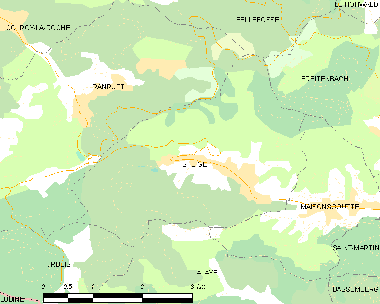 Map of French municipality